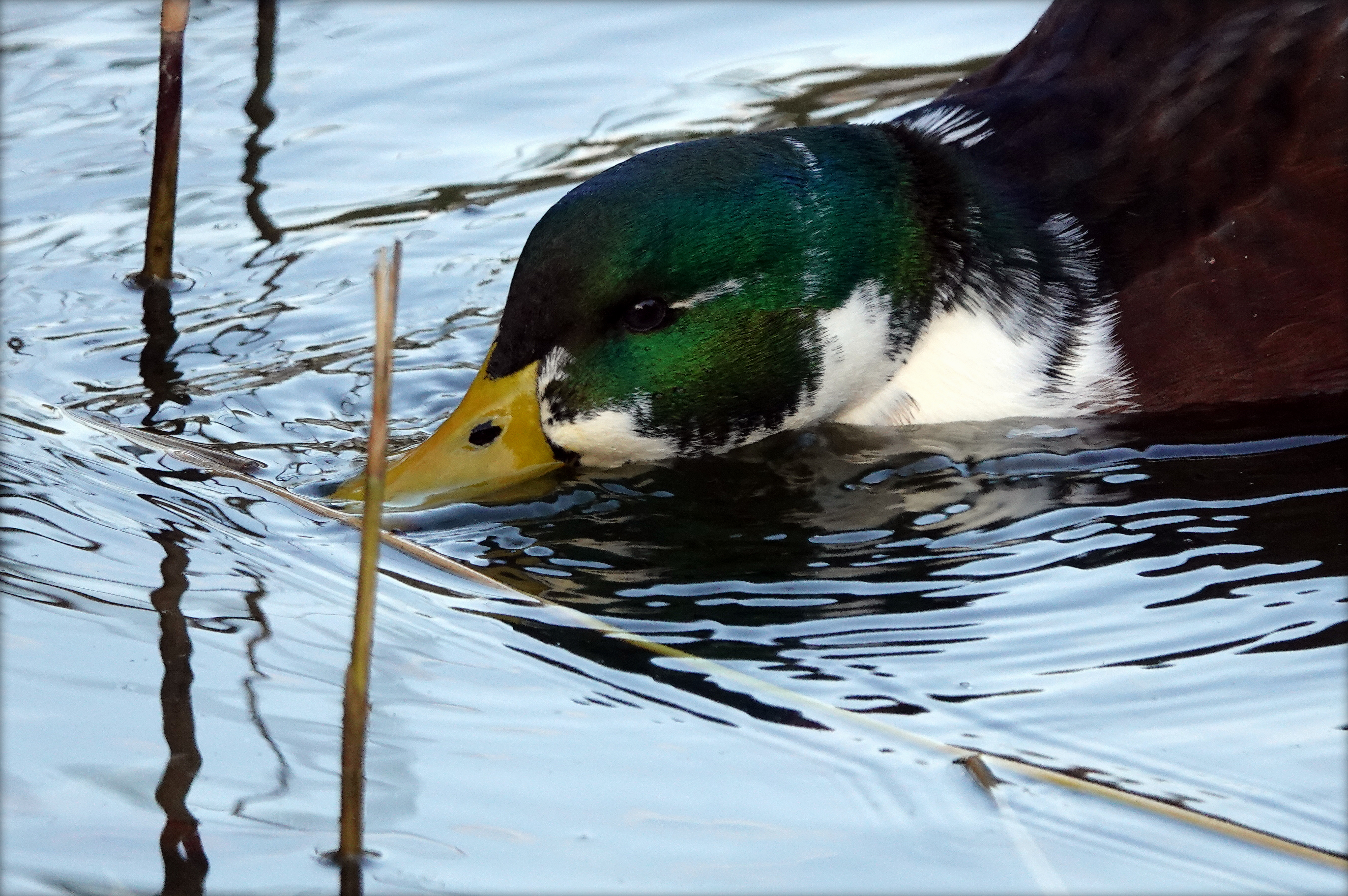 searching